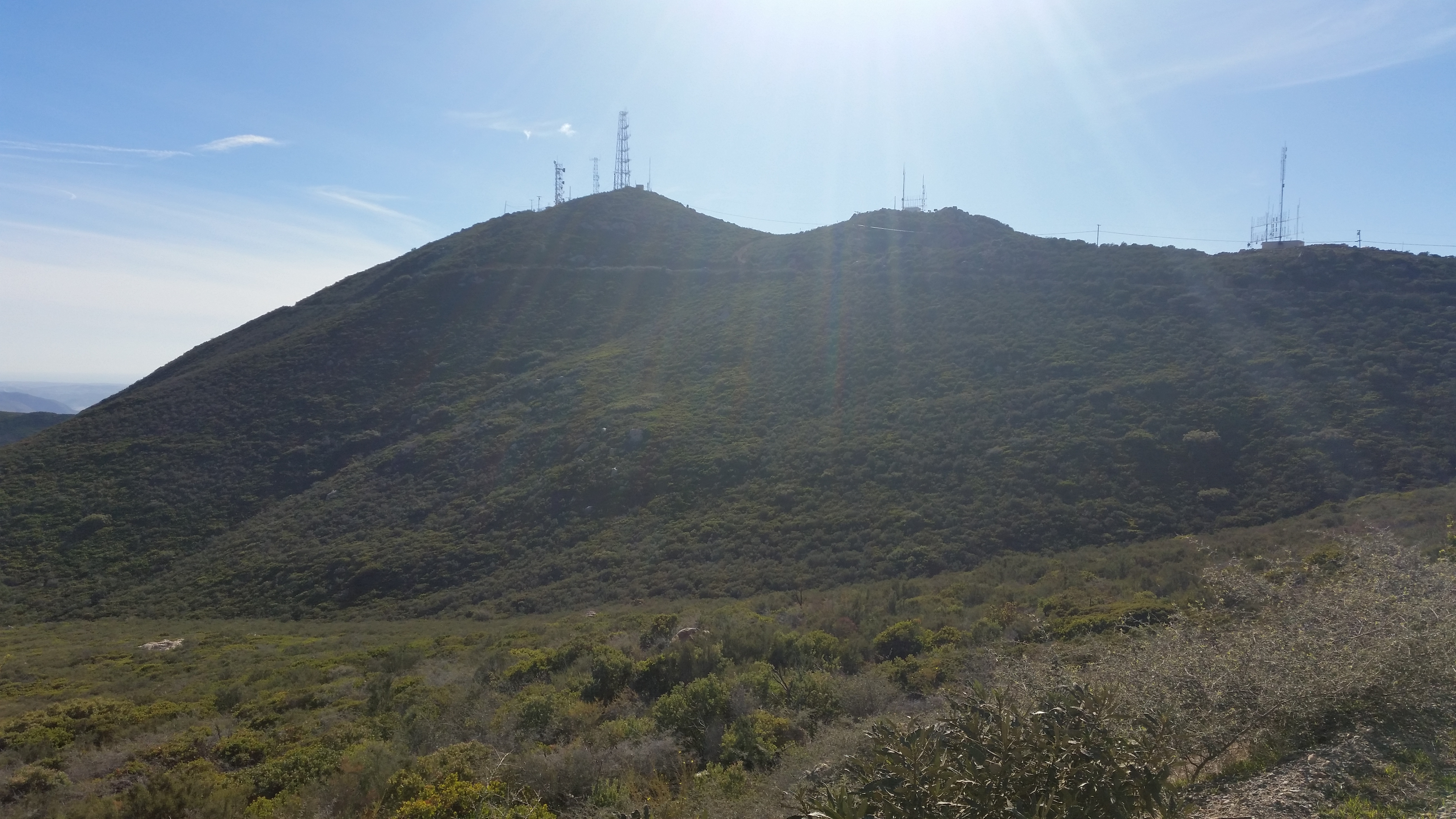 Otay Mountain as seen from the Otay Mountain Truck Trail, looking south.